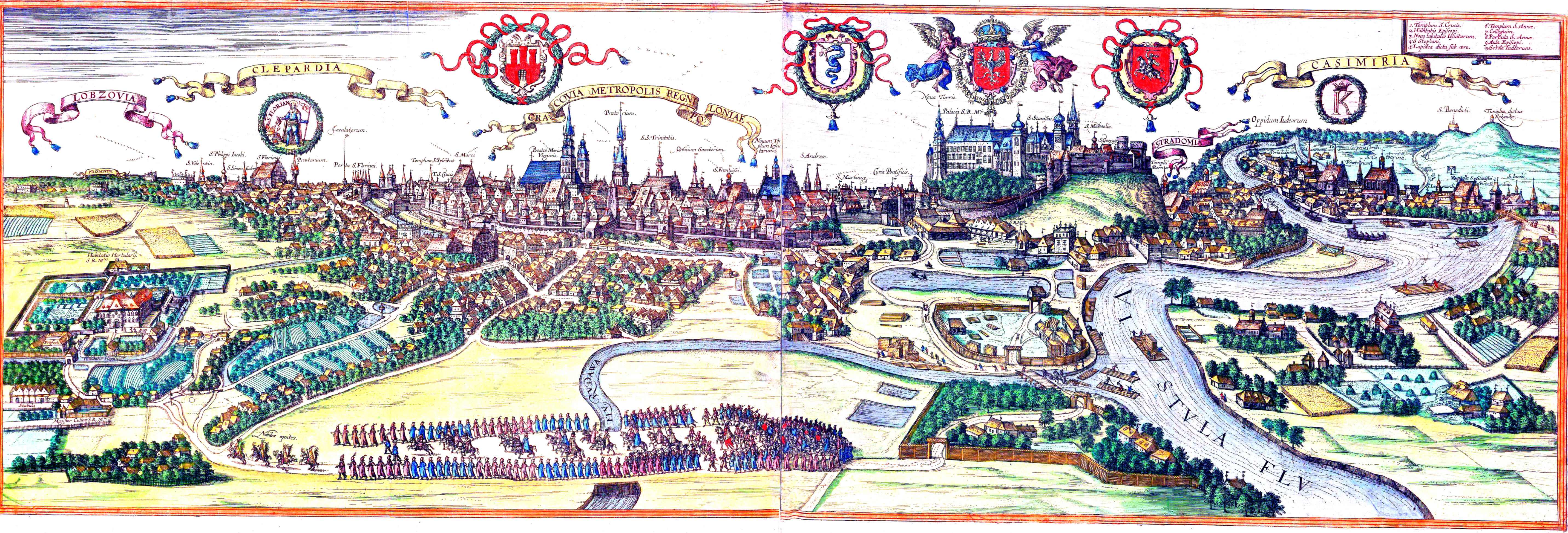 Kraków, Stradom, Kleparz, Kazimierz, Łobzów by Braun and Hogenberg, Civitates Orbis Terrarum Vol. VI, 1618